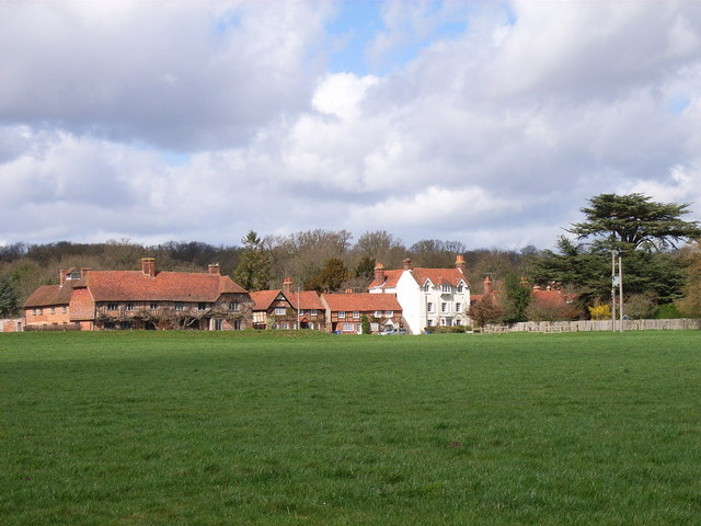 Greywell. A view across the meadows next to the Whitewater to the picturesque village.